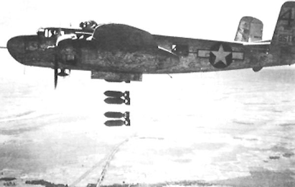 B-25H-10 43-5104 "Bones" of the 83d Bombardment Squadron, 12th Bombardment Group releasing 1,000 pound bombs over a road in northern Italy, 1944. "Bones" was the 1000th, and last B-25H manufactured, and also the final Mitchell made by North American in Southern California before manufacturing was moved to Fairfax Airport near Kansas City, Missouri. The aircraft contained numerous signatures by the workers who assembled it before it was shipped to the MTO. (USAAF Photo)